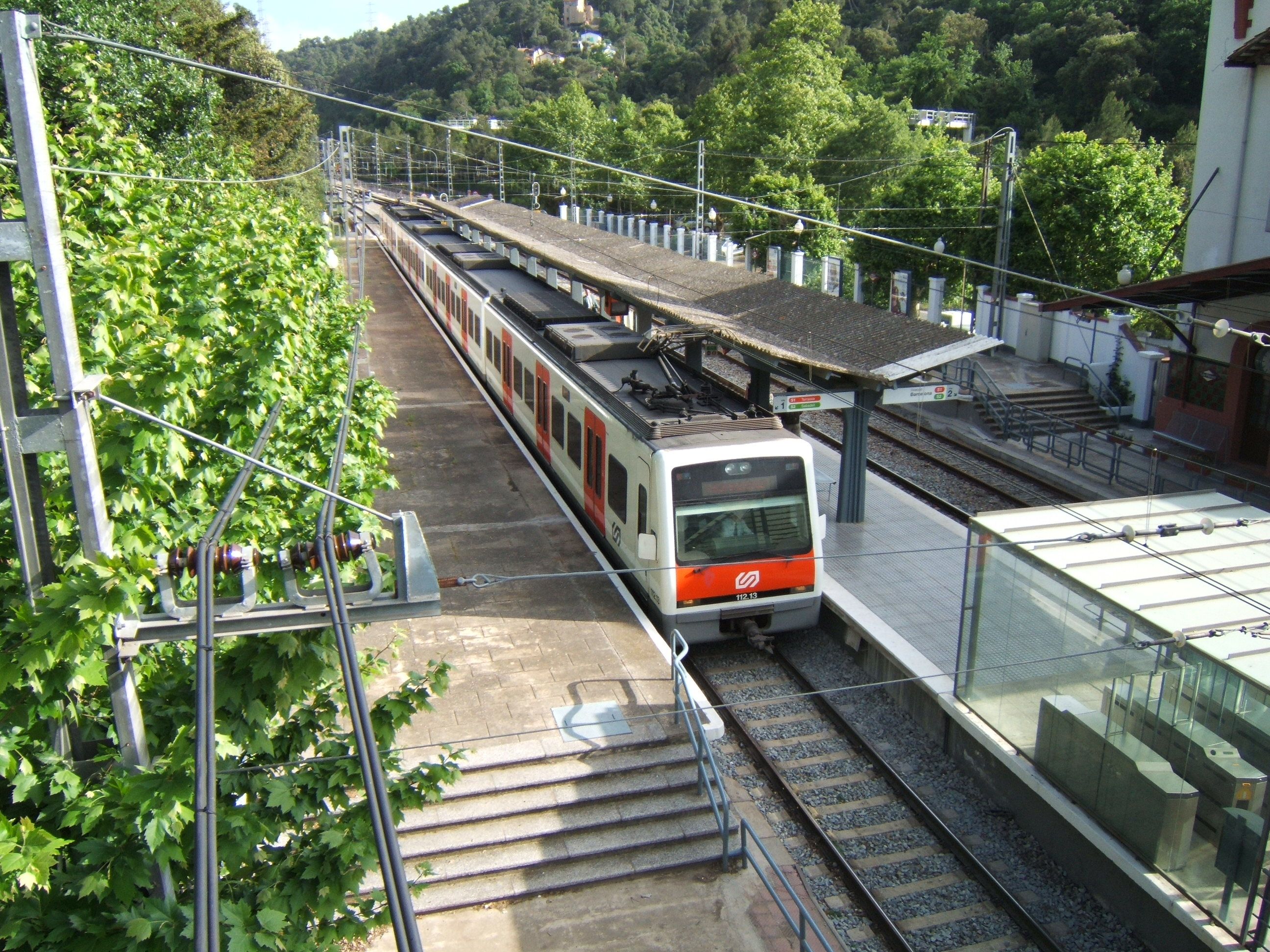 Station Les Planes on the Catalunya Sant Cugat line. European gauge line.